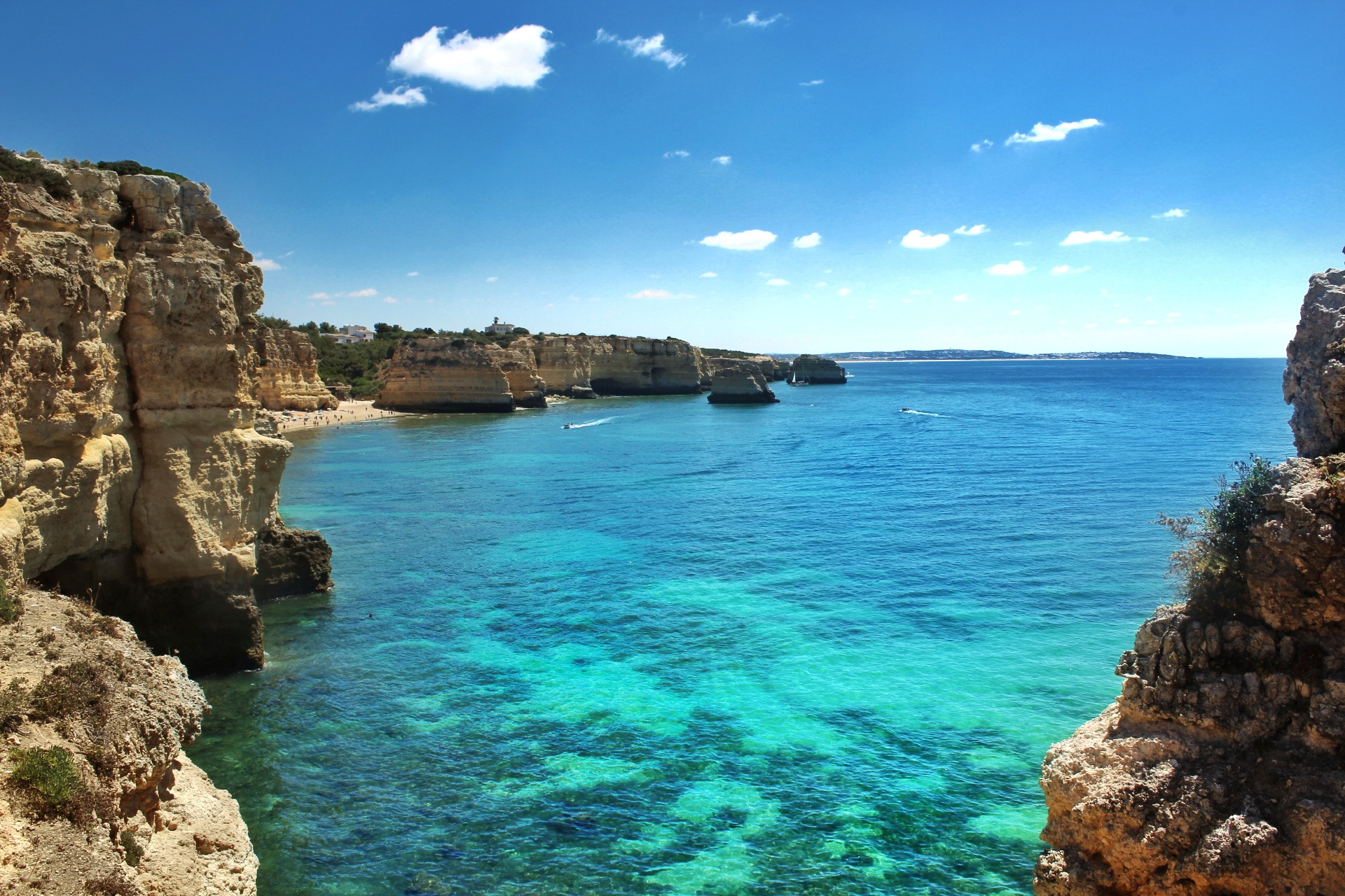 • exploring the coast of Portugal •